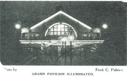 The Grand Pier Pavilion, Herne Bay, Kent illuminated on the night of its grand opening by the Lord Mayor of London on 3 August 1910. Photograph by Fred C. Palmer from the defunct newspaper Herne Bay Press, August 1910. A copy of this photograph was used by Paul Matisse in an artwork, having obtained the photograph from his stepfather Marcel Duchamp who visited Herne Bay in 1913. The Grand Pier Pavilion burned down in 1970. The photographer was Fred C. Palmer of Tower Studio, Herne Bay, Kent, who is believed to have died 1936-1939.